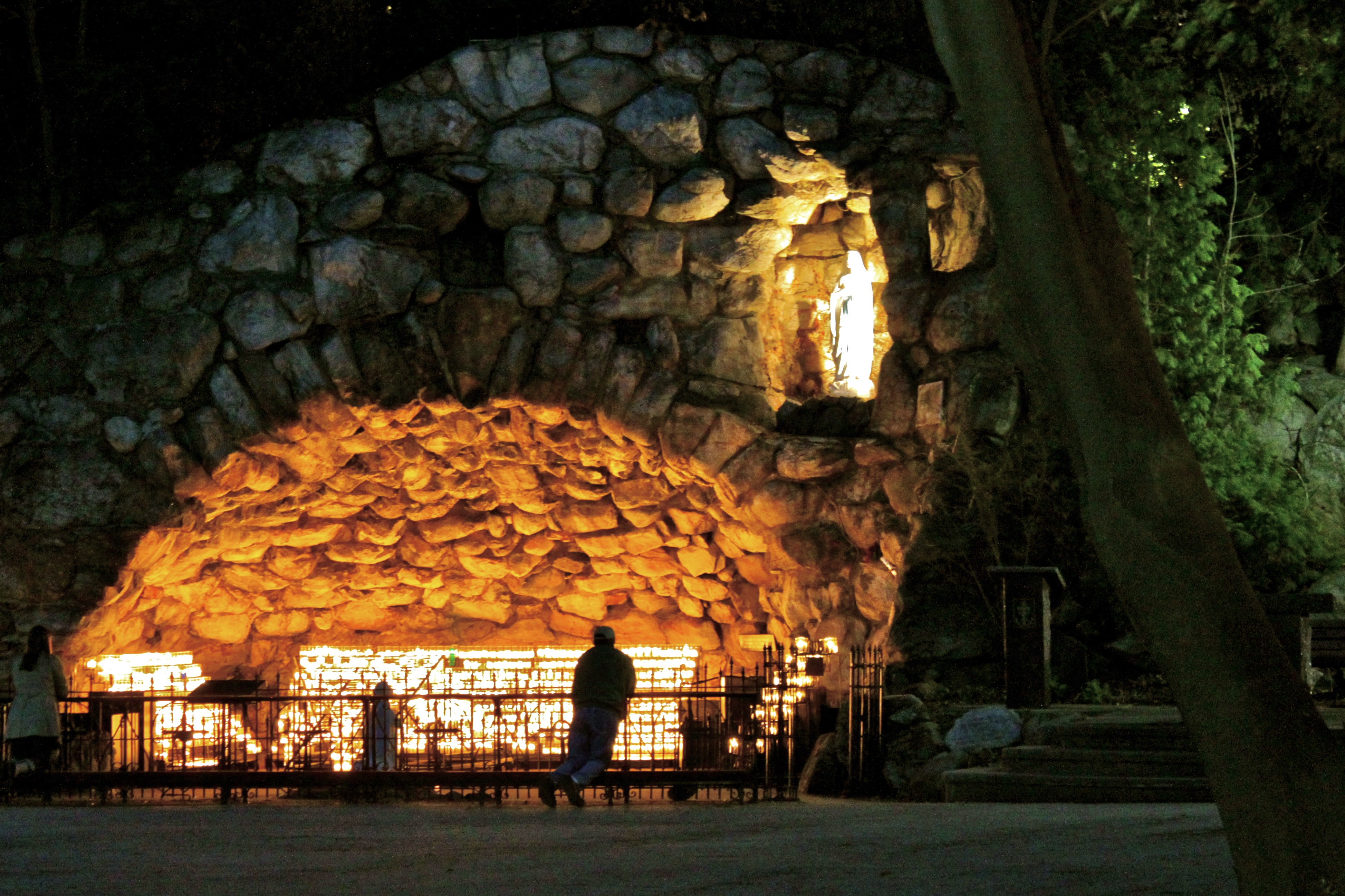 Grotto candlelight